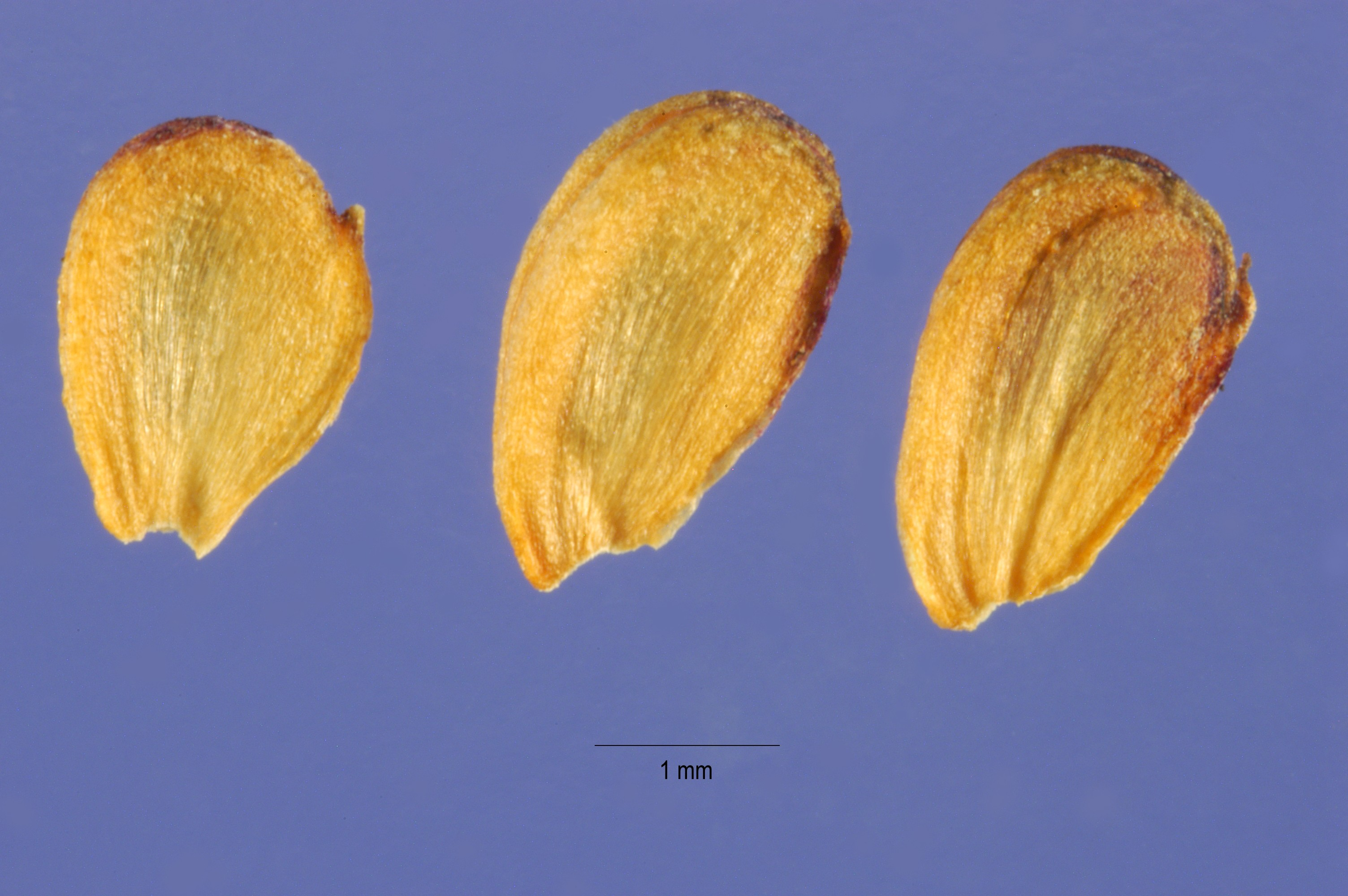 European Water Plantain. Family Alismataceae. Drawing.